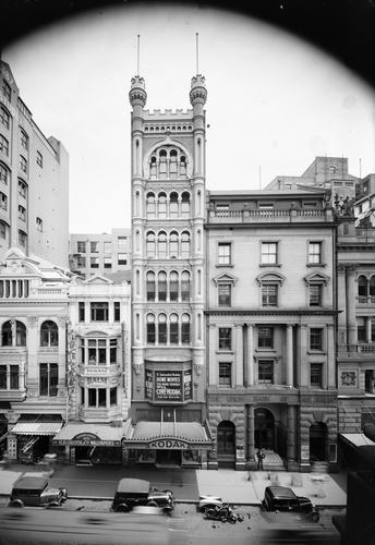 Kodak Australia Building exterior on George Street St, Sydney, New South Wales, circa 1930s. This oblique street view shows neighbouring high rises, cars parked along the street, and the blur of moving cars and people not quite captured in the longer exposure.